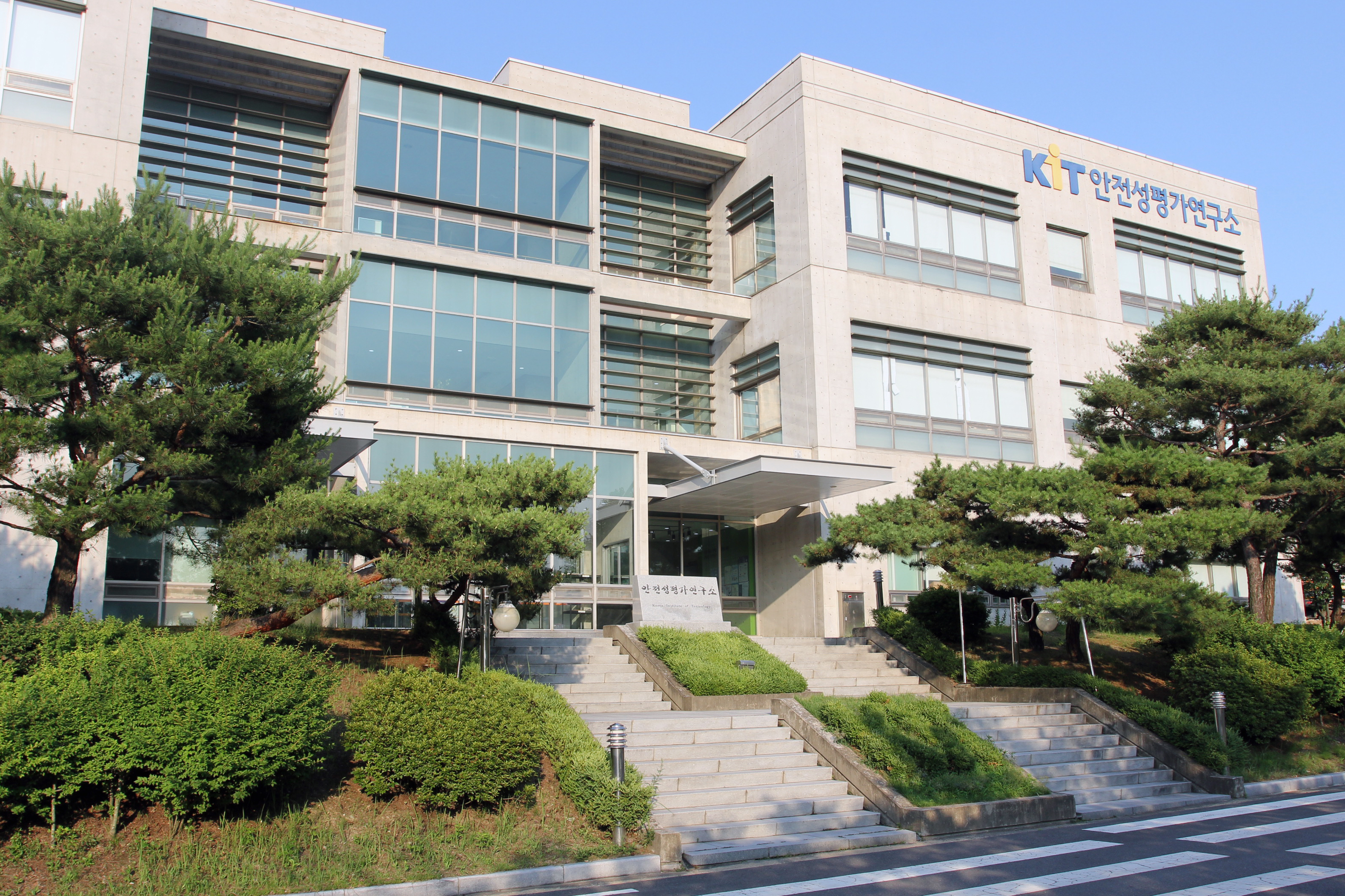 Korea Institute of Toxicology building.